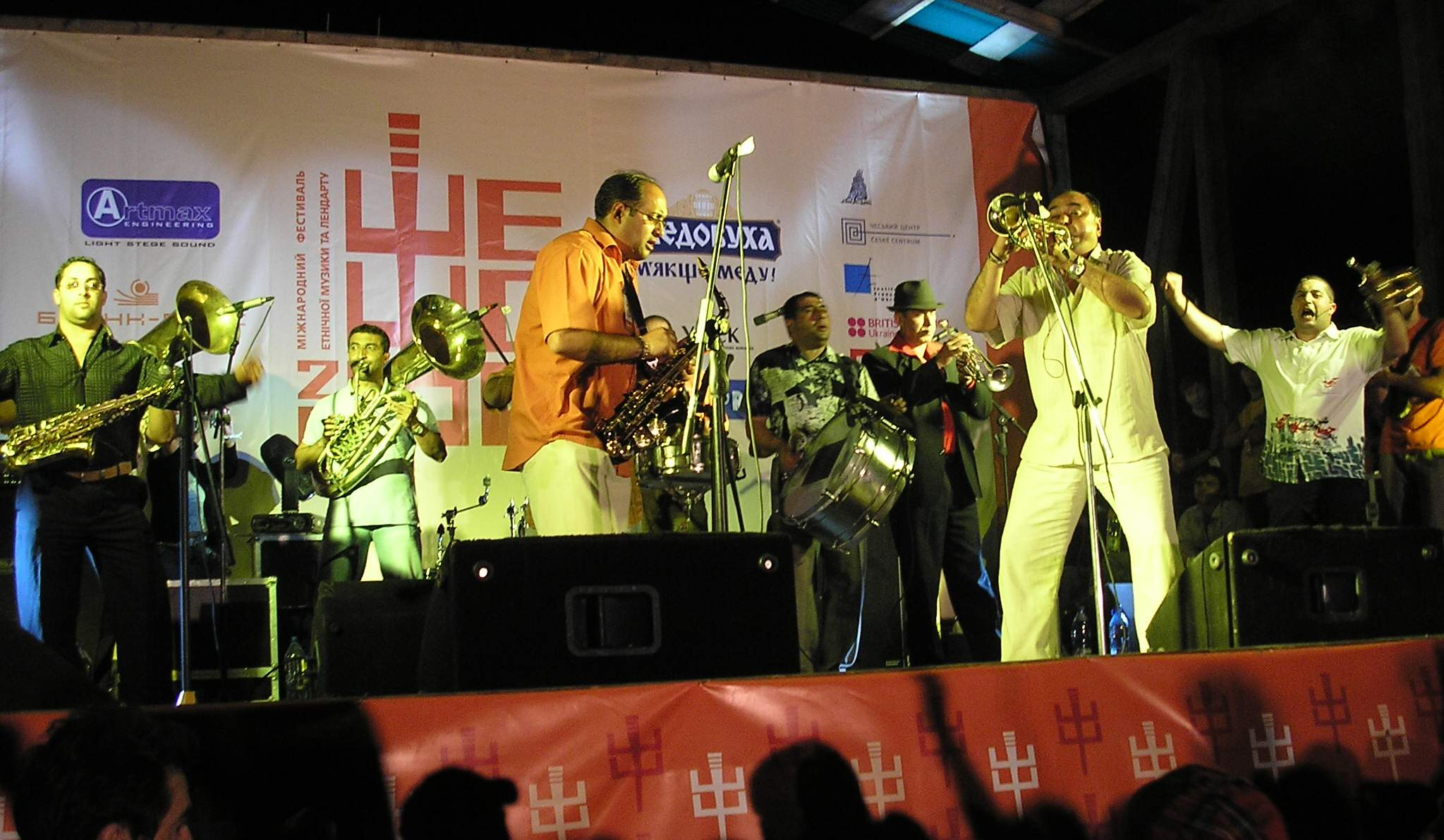 Fanfare Ciocărlia. The international world music and landart festival "Sheshory". Hutsul village Sheshory, 2006.